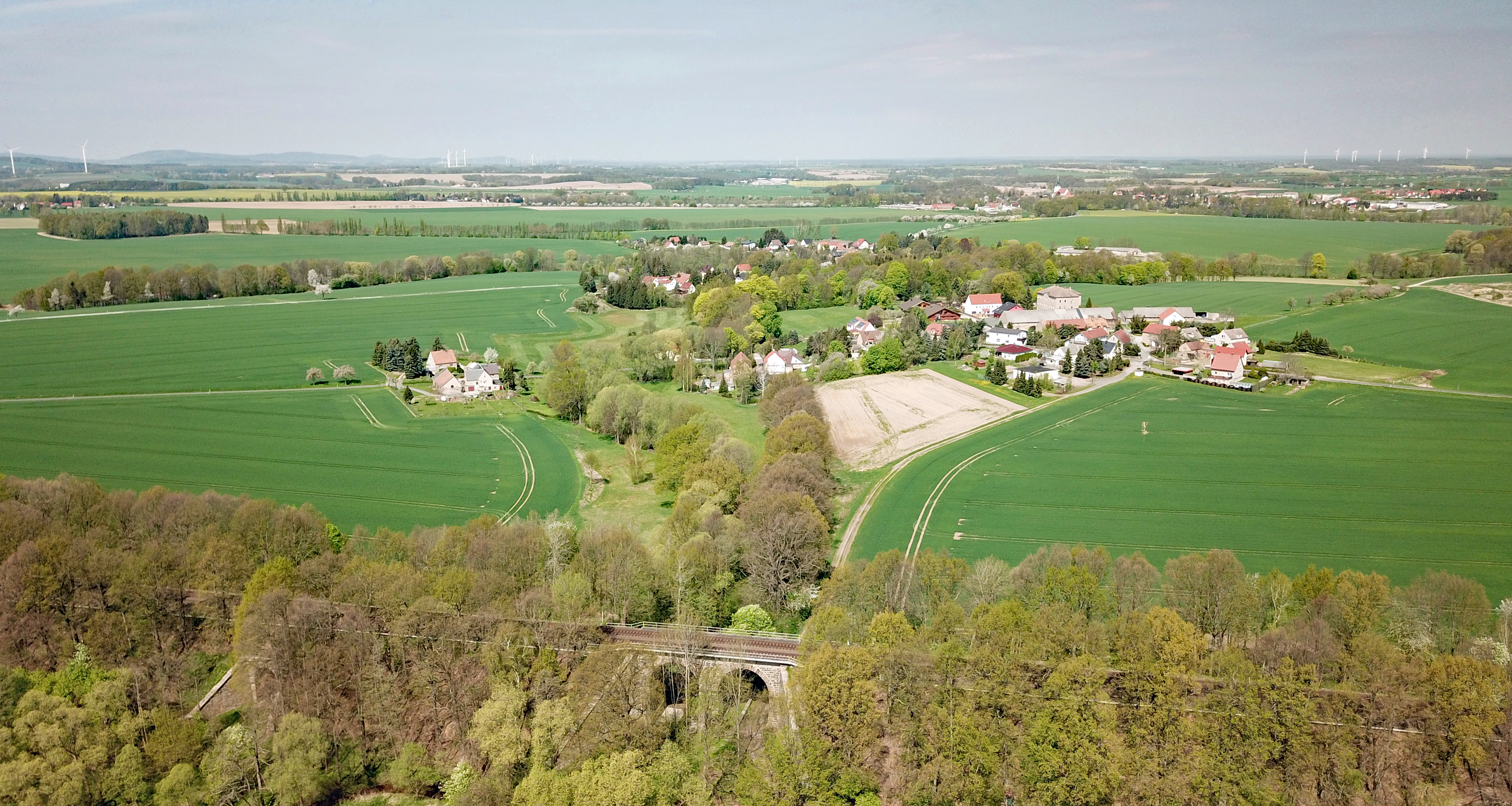 Kleinseitschen (Göda, Saxony, Germany) Hornjoserbsce: Powětrowy wobraz Žičenka ze železniskim wiaduktom